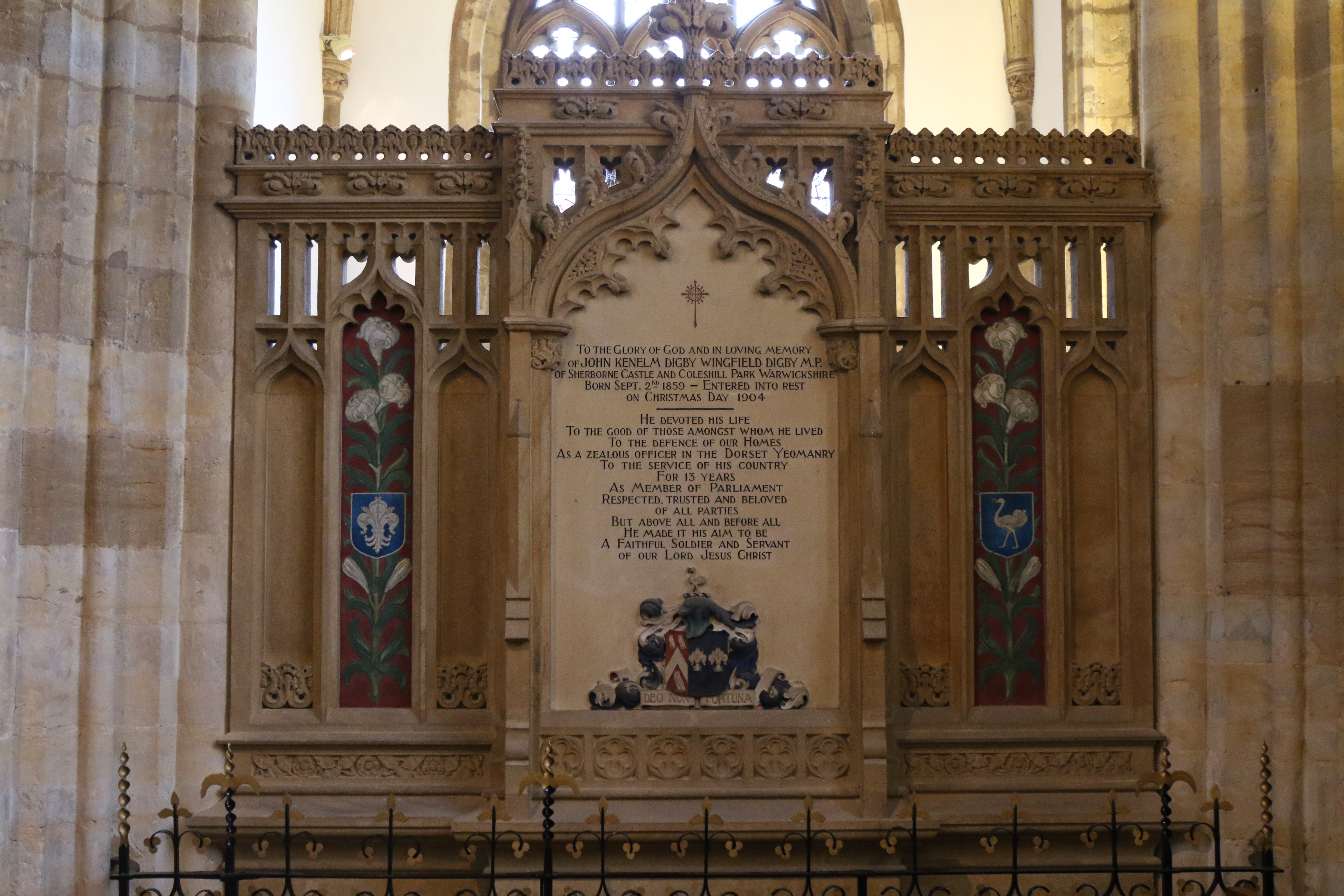 John Kenelm Digby Wingfield Digby MP of Sherborne Castle and Coleshill Park Warwickshire. Born 2 September 1859. Died 25 December 1904. : "John Kenelm Digby Wingfield Digby was born on 2 September 1859 at Blythe Hall, Coleshill, Warwickshire, England.2,3 He was the son of Captain John Digby Wingfield Digby and Maria Madan.2 He married, firstly, Hon. Georgiana Rosamund Hewitt, daughter of James Hewitt, 4th Viscount Lifford and Lydia Lucy Wingfield Digby, on 13 December 1883 at County Donegal, Ireland.4,3 He married, secondly, Charlotte Kathleen Digby, daughter of William John Digby and Sara Rebecca Le Poer Trench, in 1890 at Paddington, London, England.2,3 He died on 25 December 1904 at age 45.2 He held the office of Justice of the Peace (J.P.)3 He held the office of Member of Parliament (M.P.)1 He lived at Coleshill Park, Warwickshire, EnglandG.1 He lived at Sherborne Castle, Dorset, EnglandG.1"